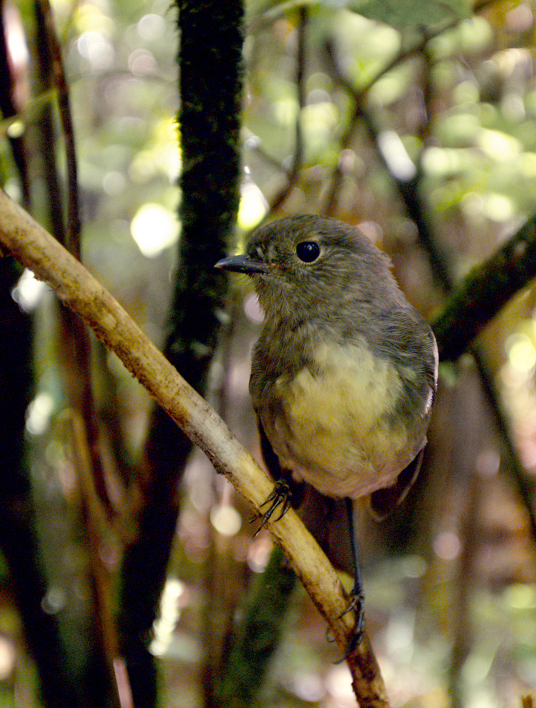 Petroica australis. little new zealand robin, west coast, south island